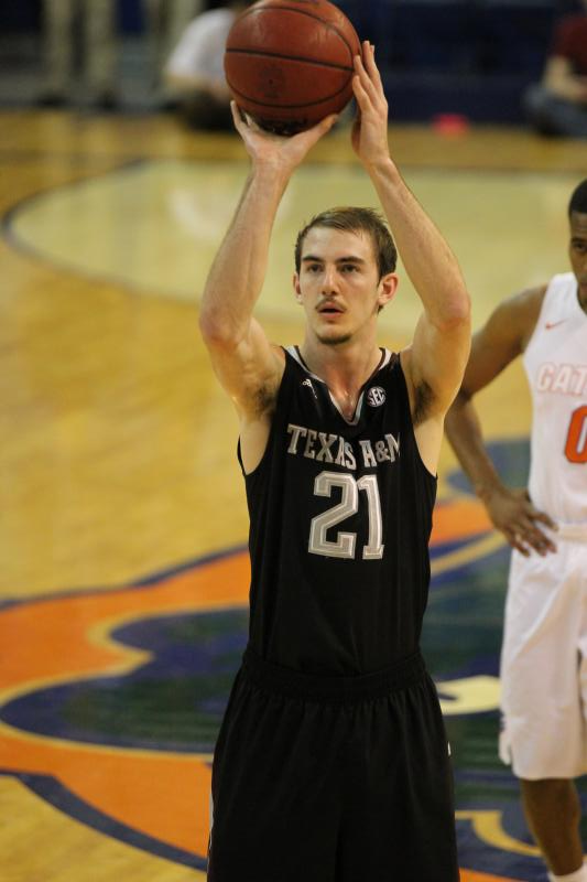 Alex Caruso, Texas A&M vs Florida Gators 2015/03/03